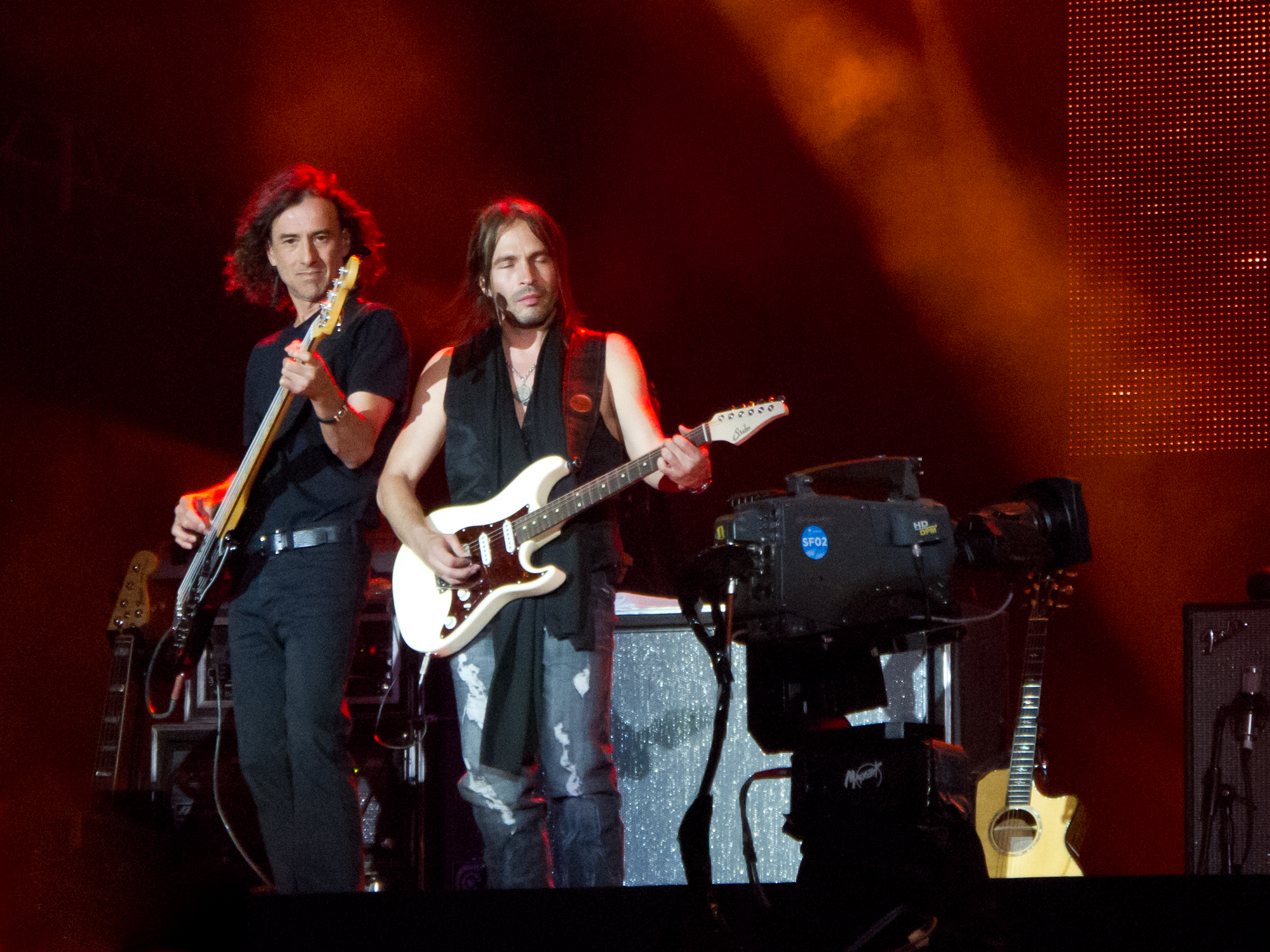 Maná in concert in Rock in Rio in Madrid in 2012.